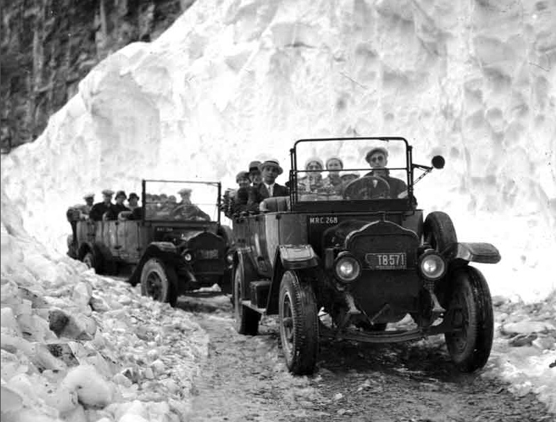 Glacier National Park, Montana, USA. Early travellers, 1930s